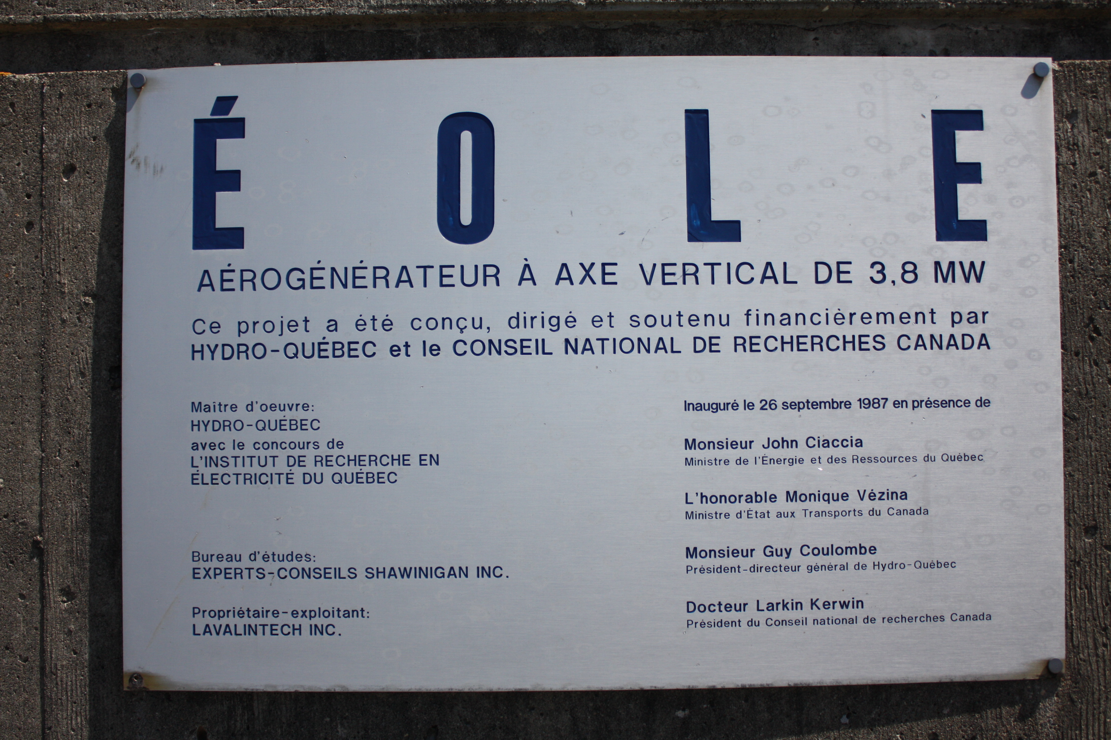 Inauguration plaque for the Éole wind turbine at Cap-Chat, Quebec, Canada